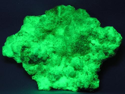 Opal (Var.: Opal-AN) Locality: Erongo Mountain, Usakos and Omaruru Districts, Erongo Region, Namibia (Locality at ) Size: 16 x 13 x 3.5 cm. Very large plate of Hyalite Opal from the Erongo Mountains in Namibia. Superb classic fluorescence, as one would expect.